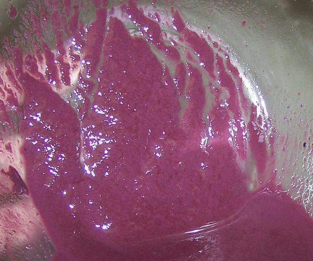 Left over lees residue for Merlot wine after fermentation. Photo take Dec 2007